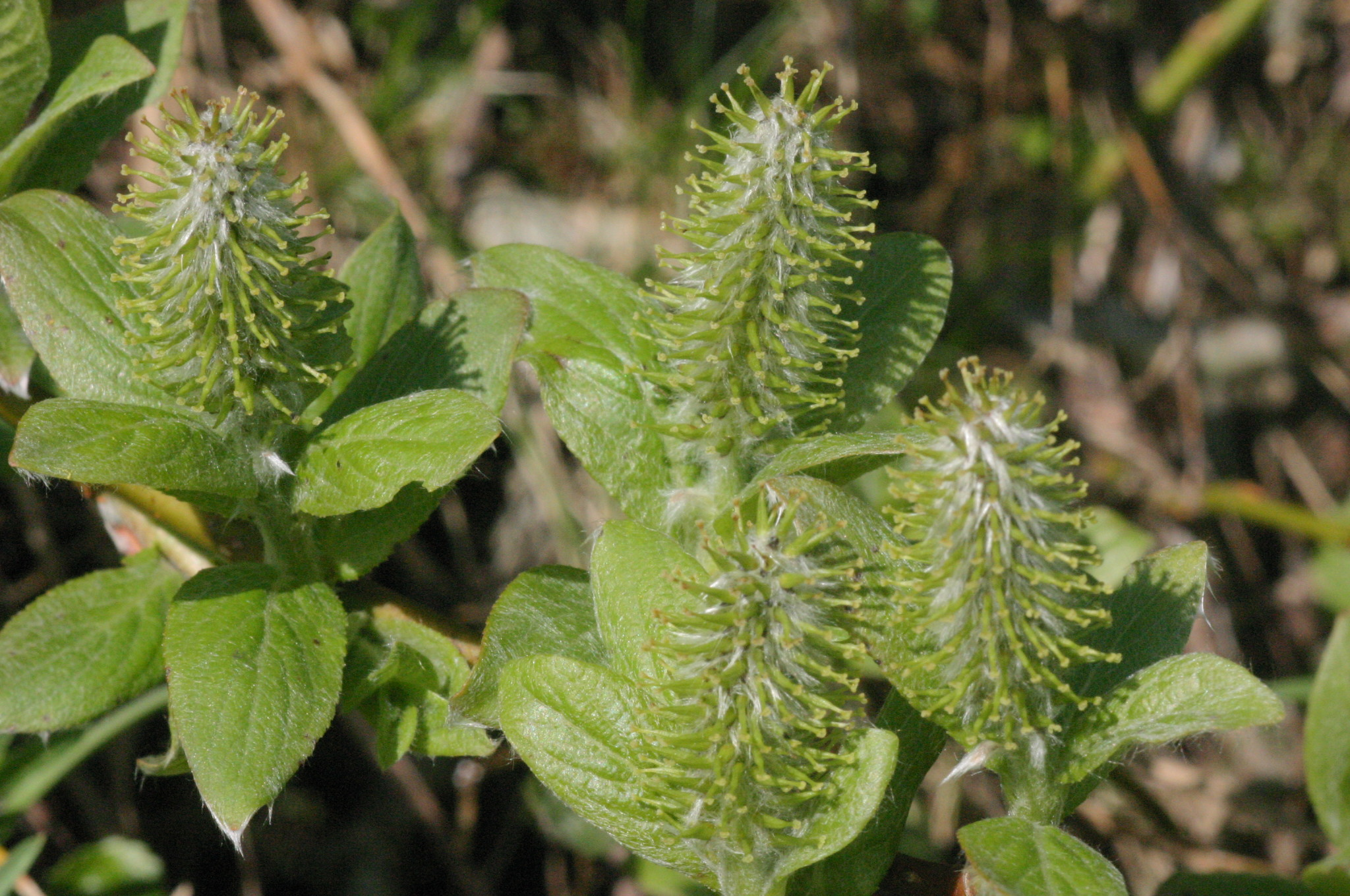 Salix hastata